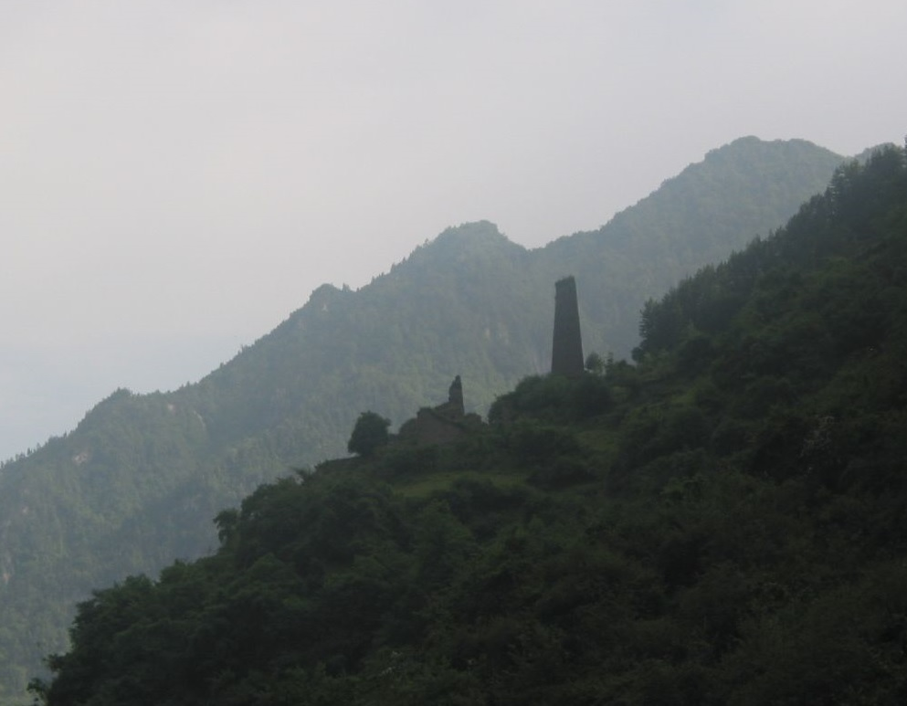 Qiang tower near Baodinggou Nature Reserve, near Mao Xian, Sichuan, China See where the photo was taken at Yuan.CC Maps.